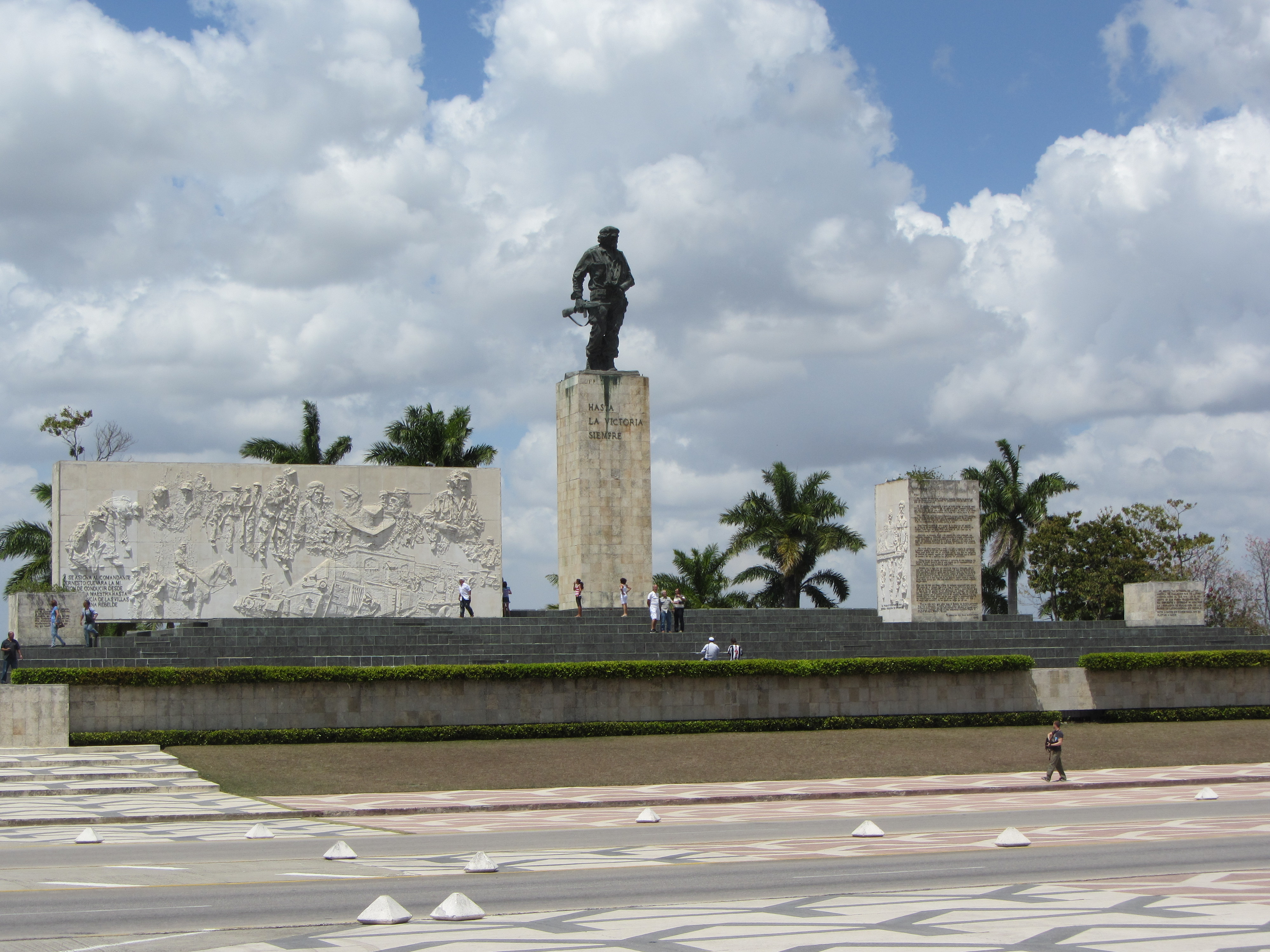 The huge memorial on the outskirts of Santa Clara